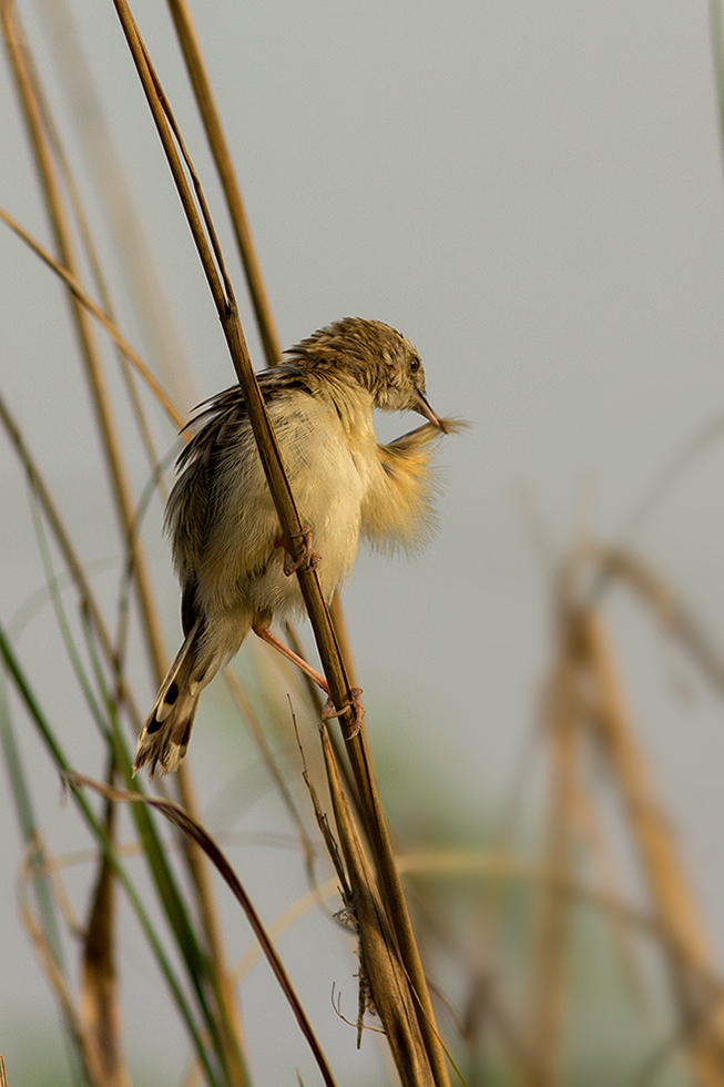 zitting cisticola or streaked fantail warbler (Cisticola juncidis) Singing @ Basai, Gurgaon, Haryana